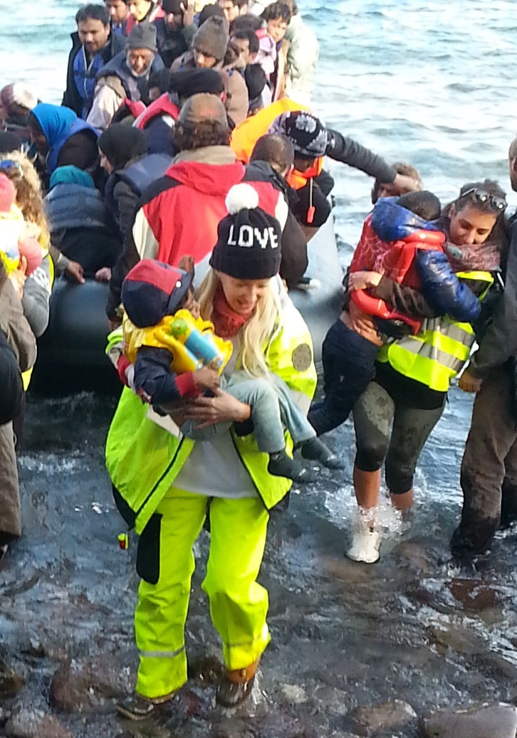 Dr. Alison Thompson helping Syrian refugees off boats in Greece.